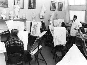 Åke Hellman, Helsingin yliopiston piirustuslaitos, vuonna 1978.